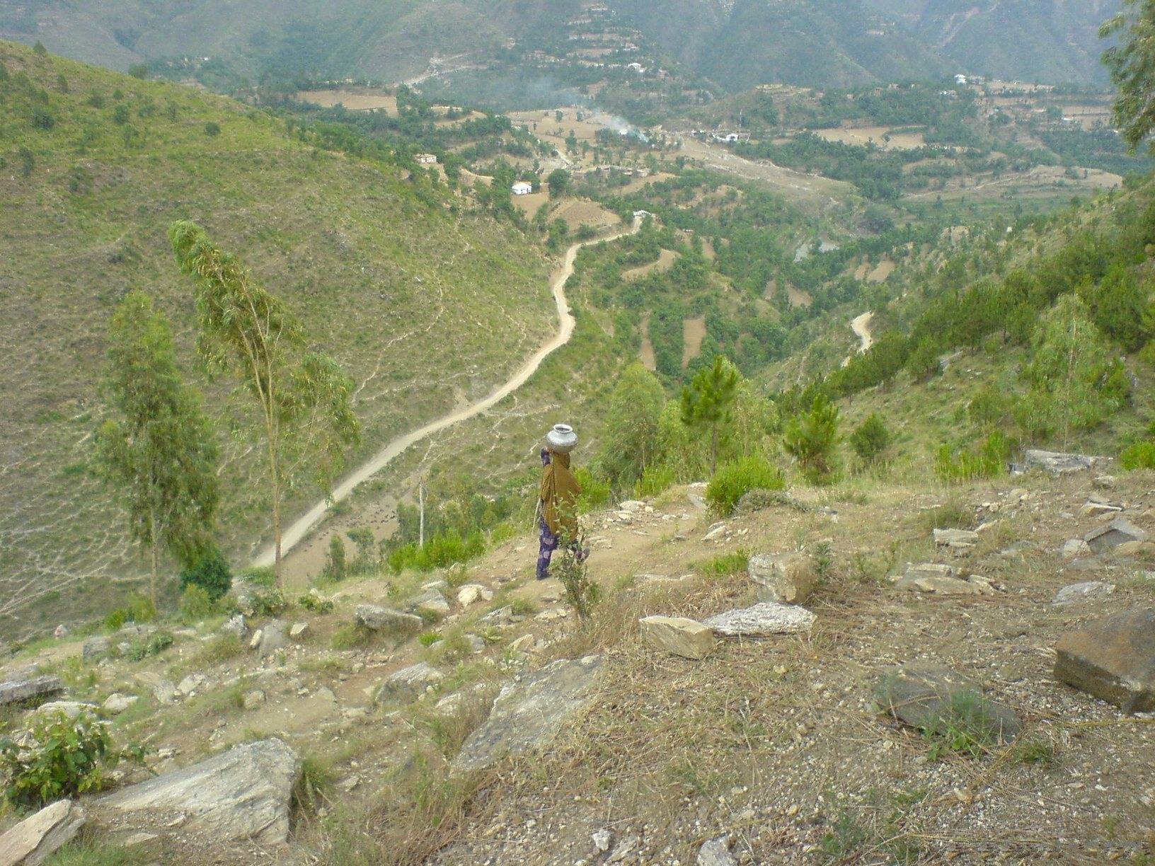 A woman near Mandoorya, Martung carrying water from a far hilly spring.